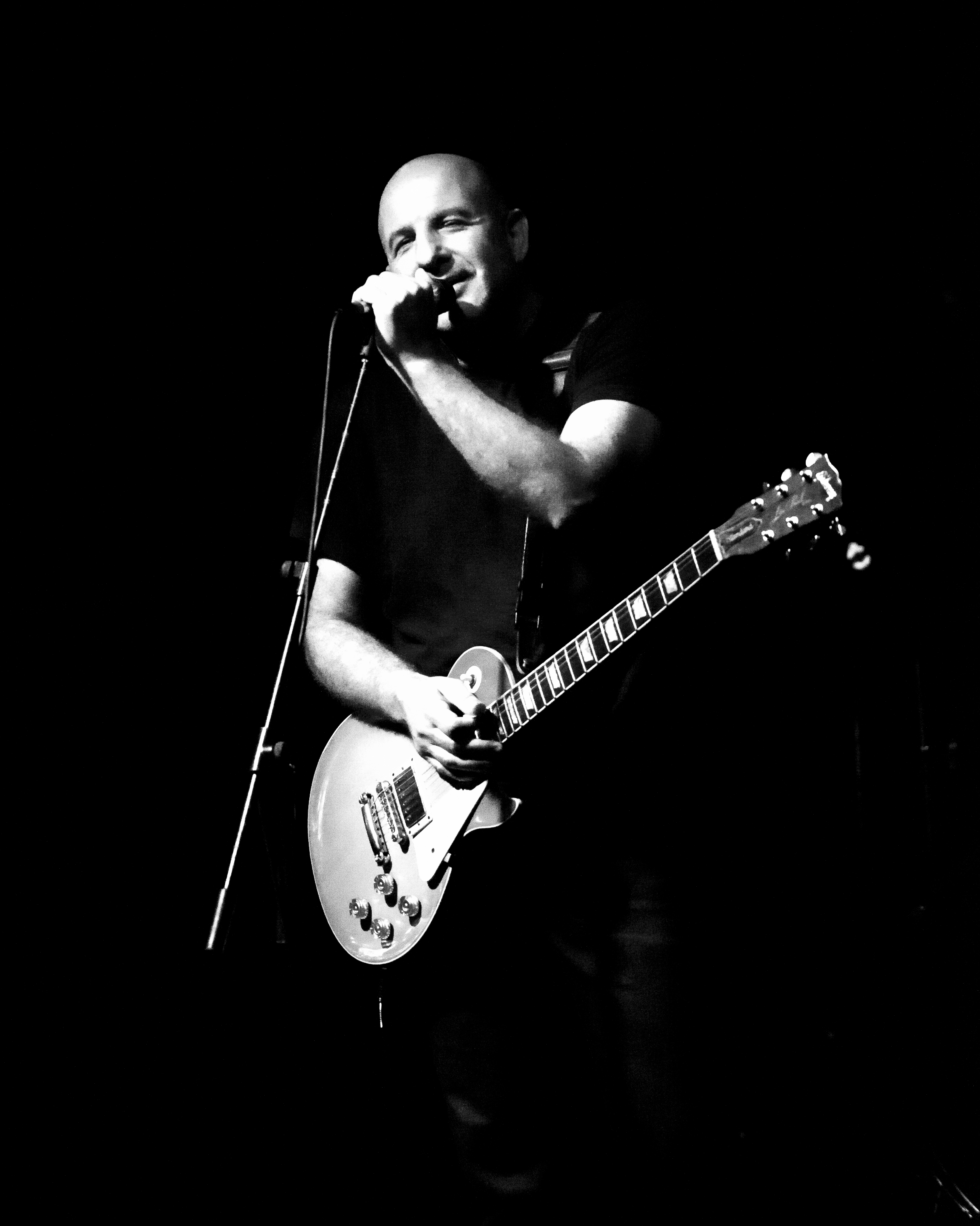 Amir Lev performing on stage at the Barbi, Tel Aviv, 2014